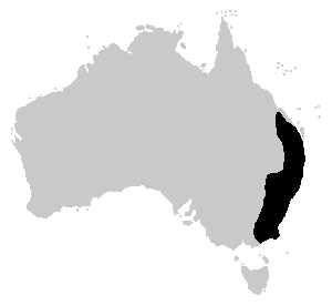 Distribution of Smooth Toadlet (Uperoleia laevigata) User:Froggydarb/GFDL-self